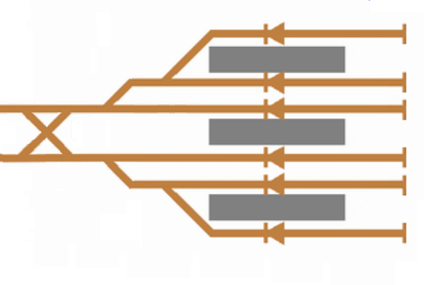 Diagram of railway track layout at straions.